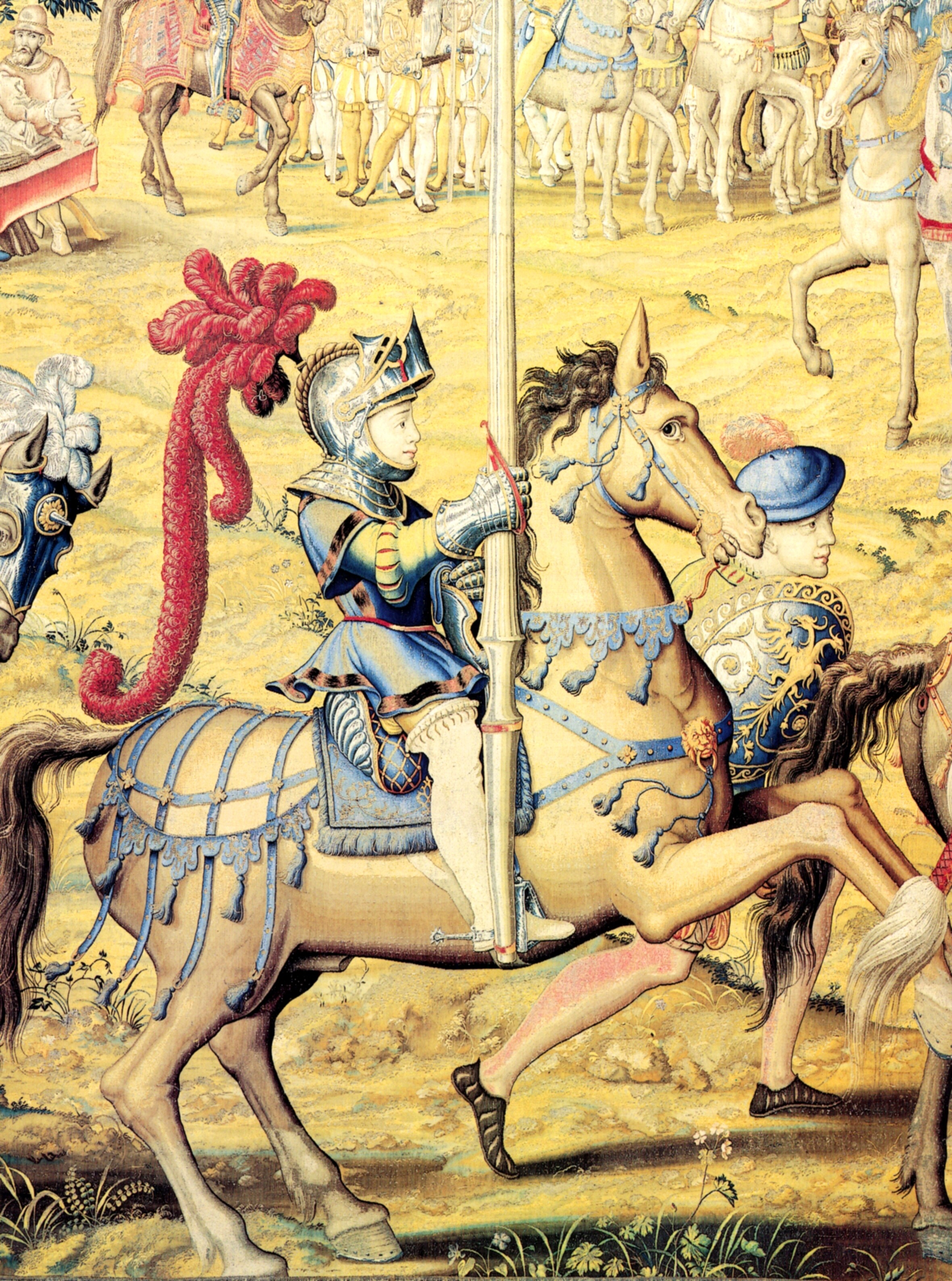 The Conquest of Tunis, 2nd tapestry, Detail Dom Luis, infante of Portugal.